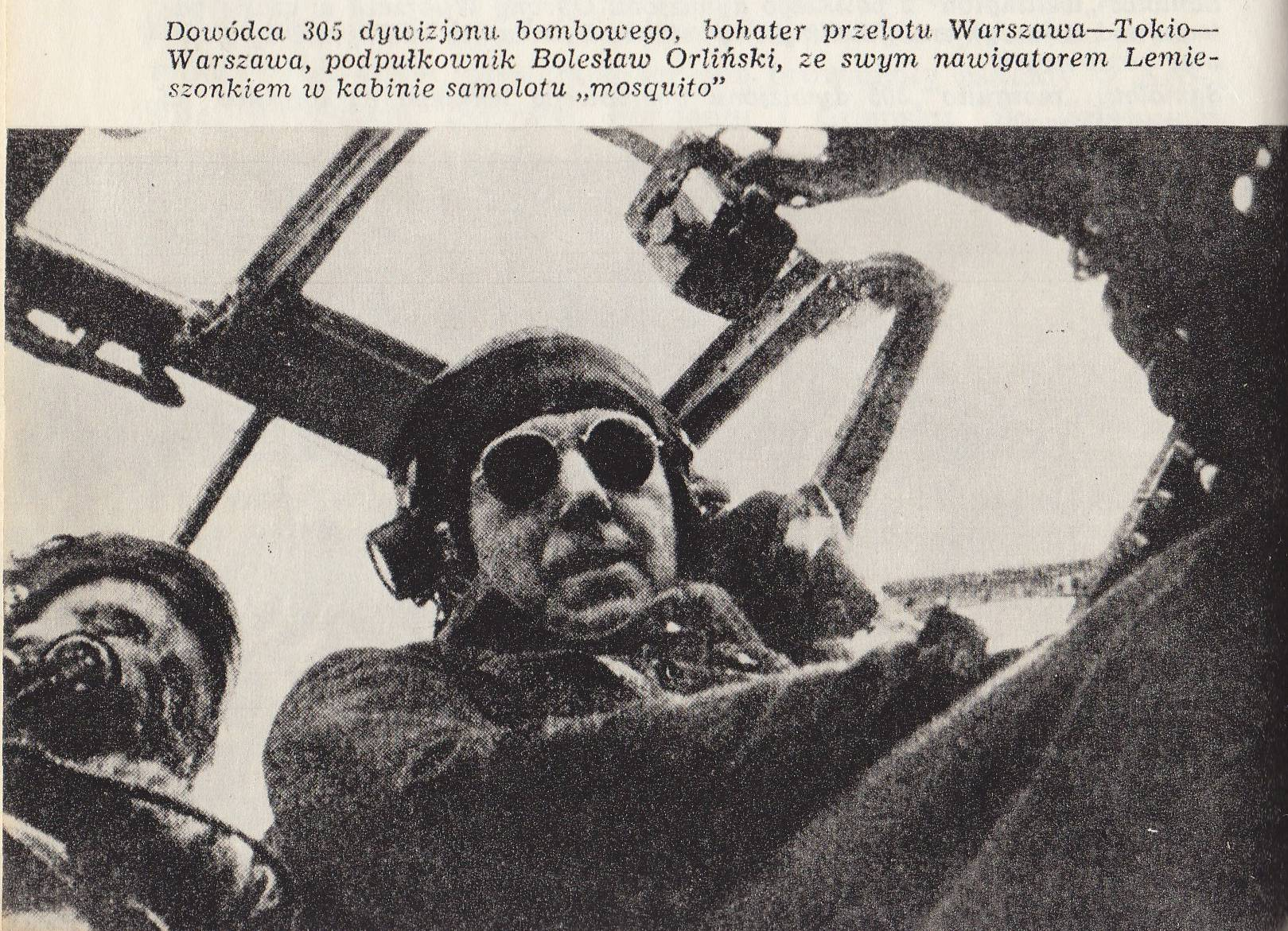 Squadron Leader of RAF No. 305 Polish Bomber Squadron Bolesław Orliński (right) in cocpit of his De Havilland Mosquito with navigator Lemieszonek